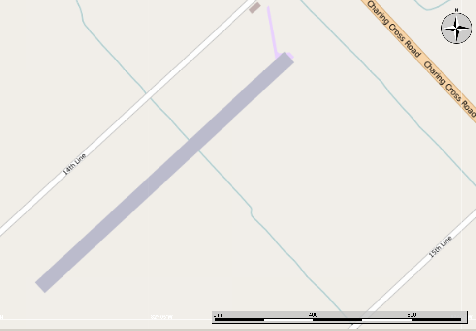 Open Street Map showing the Chatham Kent Airport in Ontario. Cropped using GIMP from the original Open Street Map in Marble.